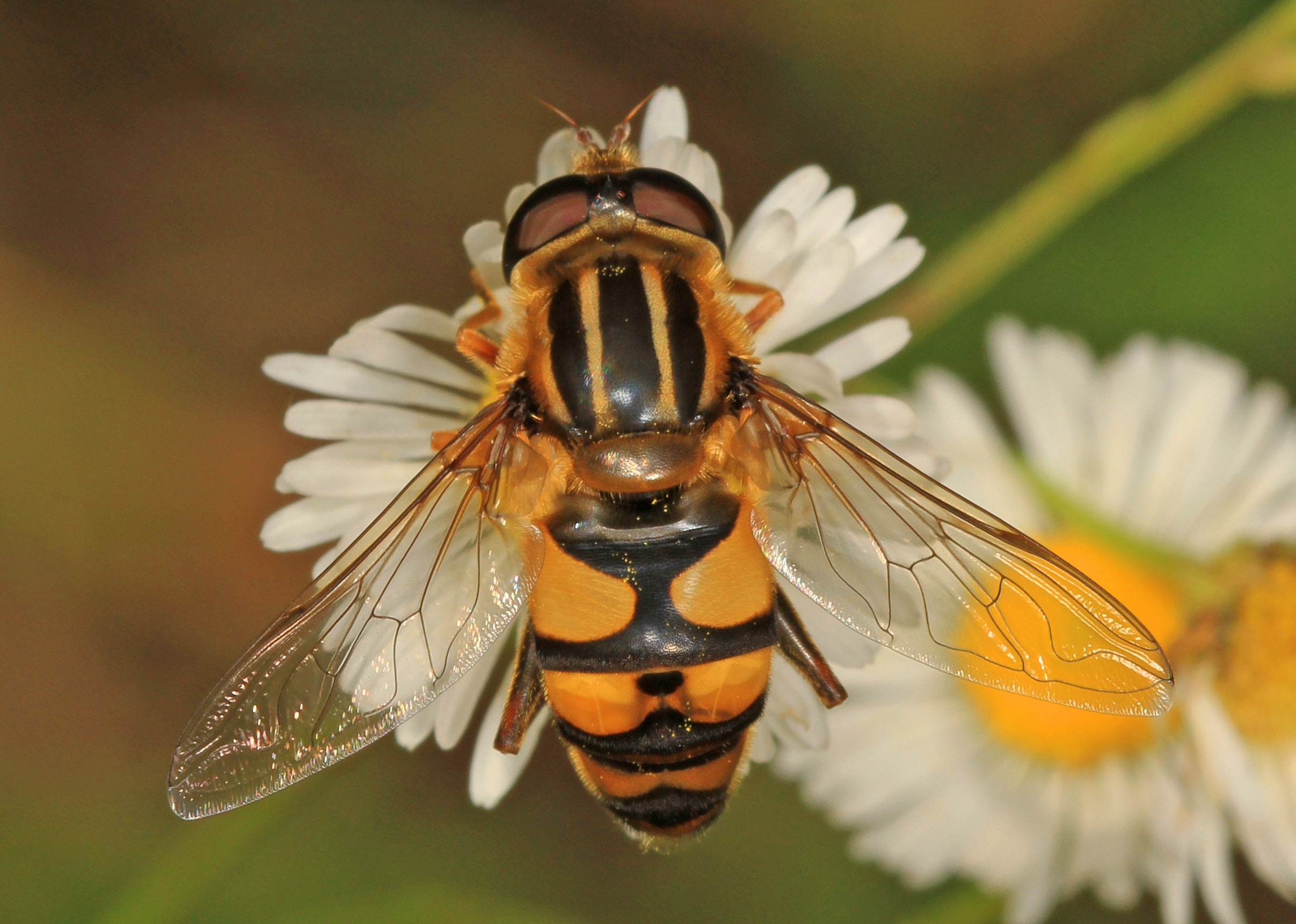 Syrphid - Helophilus fasciatus, Big Thicket National Preserve, Kountze, Texas.